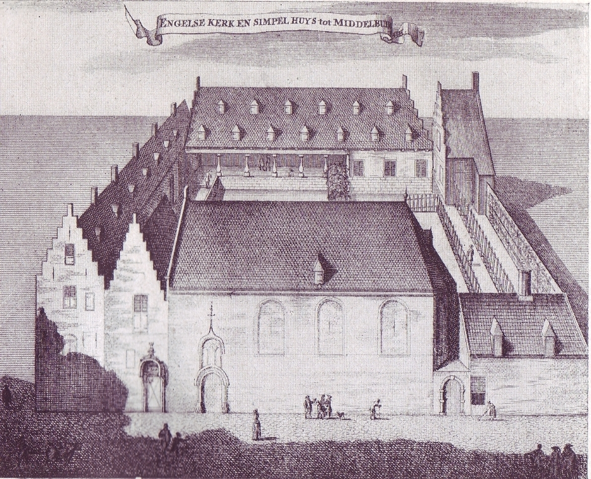 Engelse Kerk Middelburg